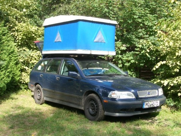 car roof tent "Maggiolina online", on top of a Volvo V40